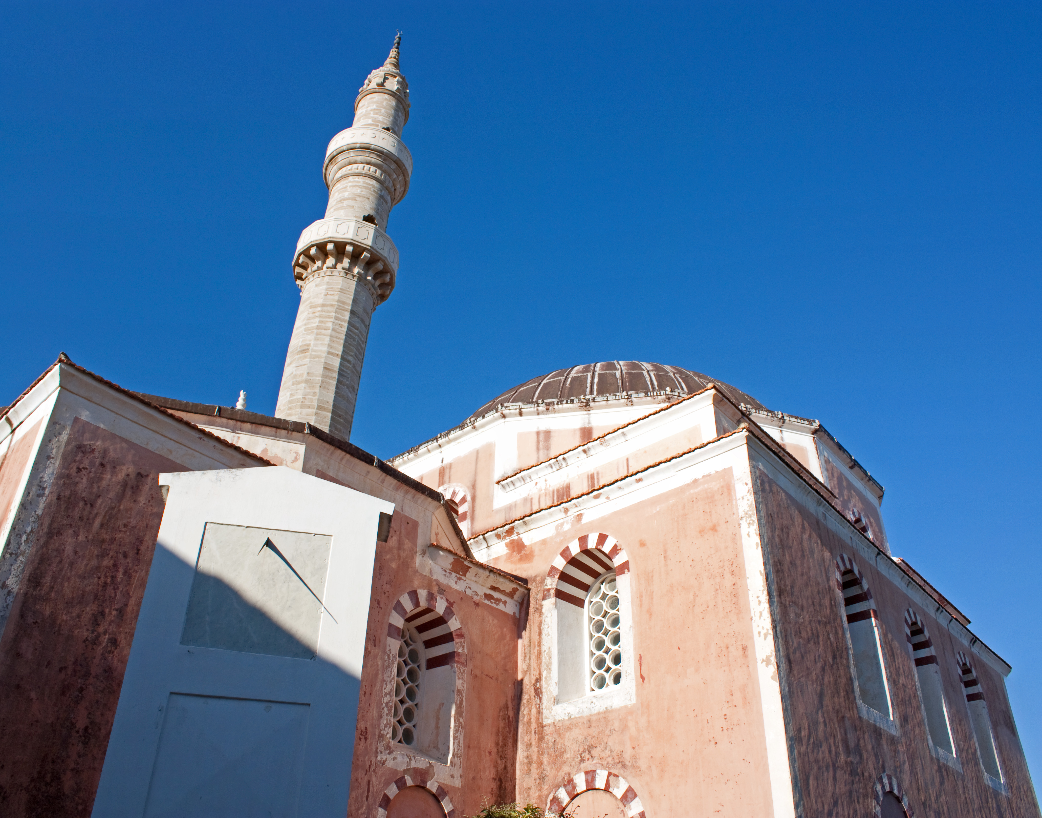 Suleiman Mosque in the medieval city of Rhodes, Greece. This panoramic image was created with Photoshop's Photomerge(Stitched images may differ from reality.)